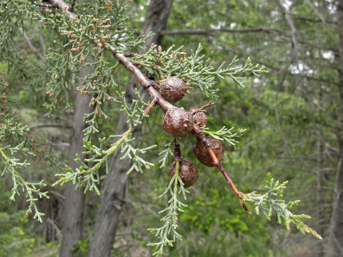 Sargent's Cypress Cupressus sargentii, foliage and cones. Mount Tamalpais Old Stage Road, California.